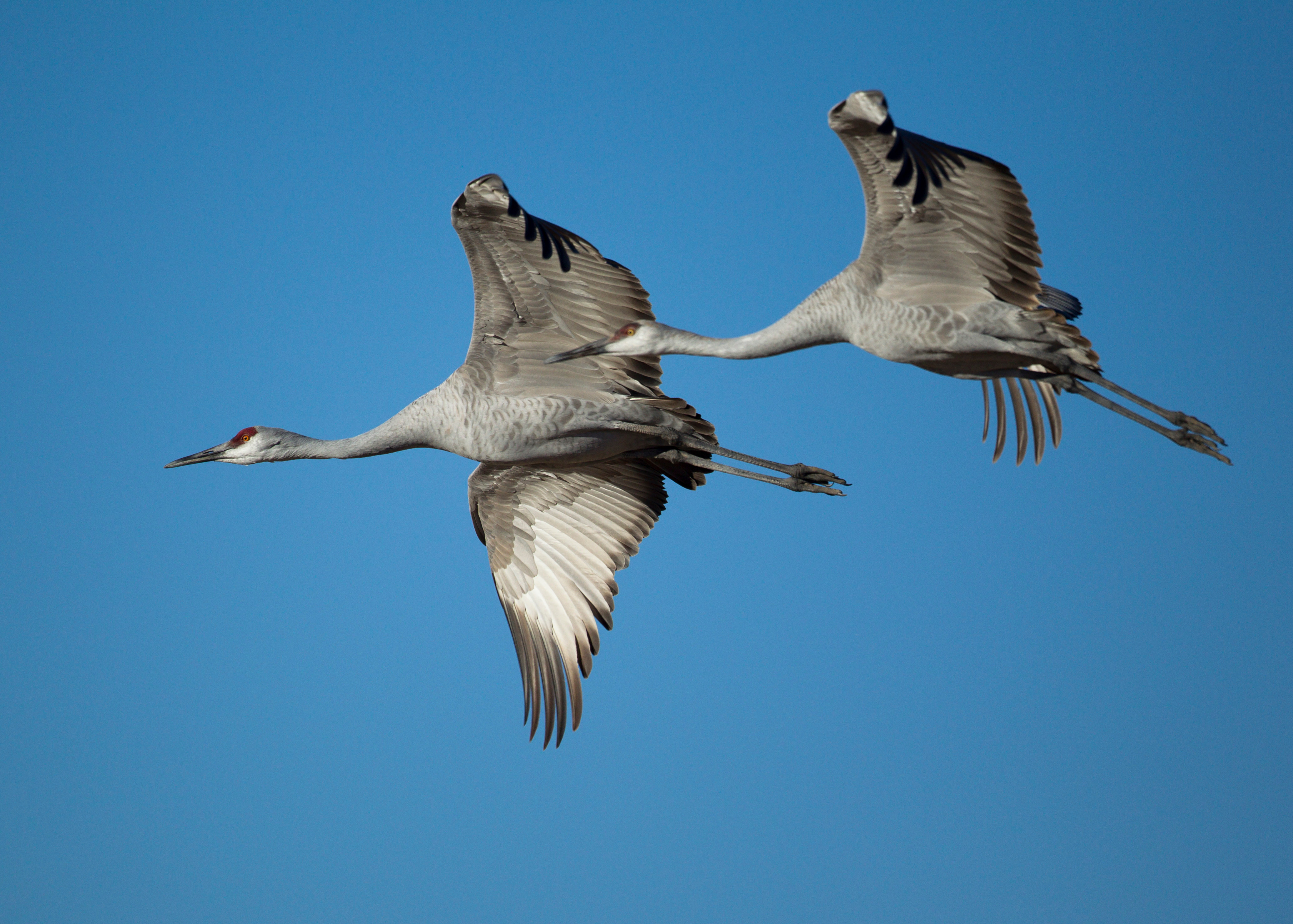 Sandhill Cranes flying at Bosque del Apache National Wildlife Refuge, New Mexico, USA.